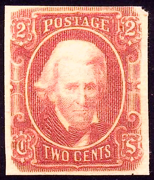 Confederate Stamp, Andrew Jackson, 2c (Red Jack)